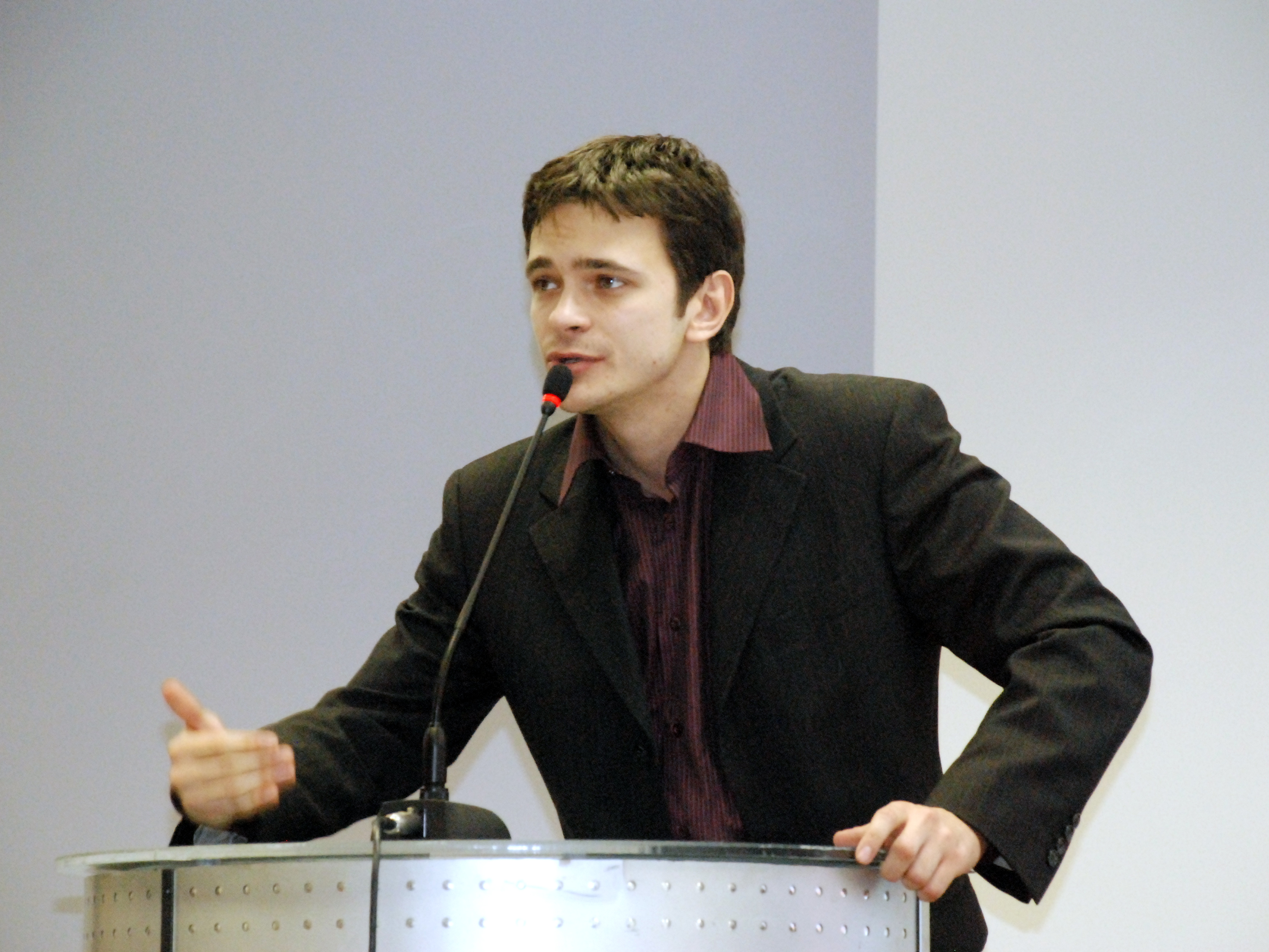 Ilia Yashin a member of the Solidarity coalition